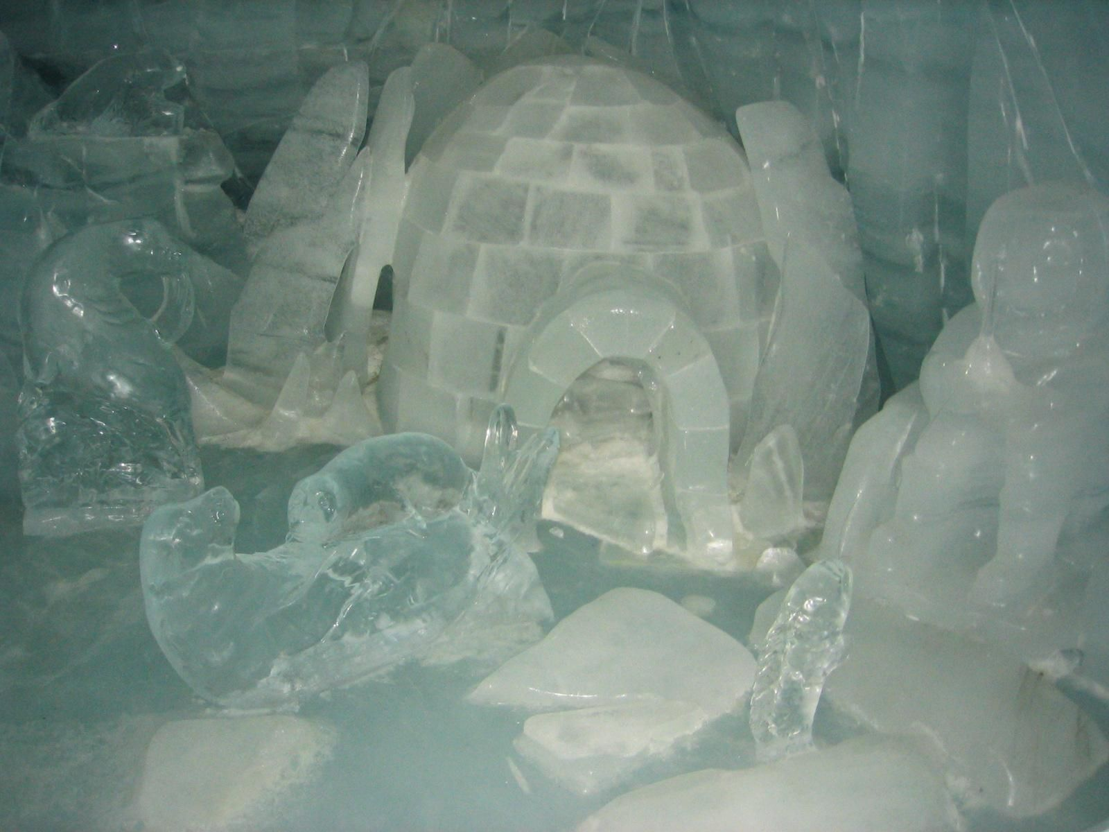 Image title: Ice cave Image from Public domain images website